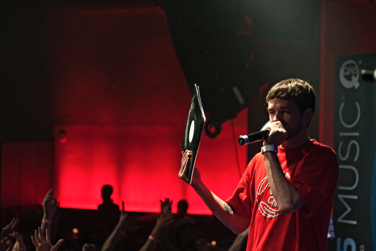 Rapper and producer Kno performing live in 2011